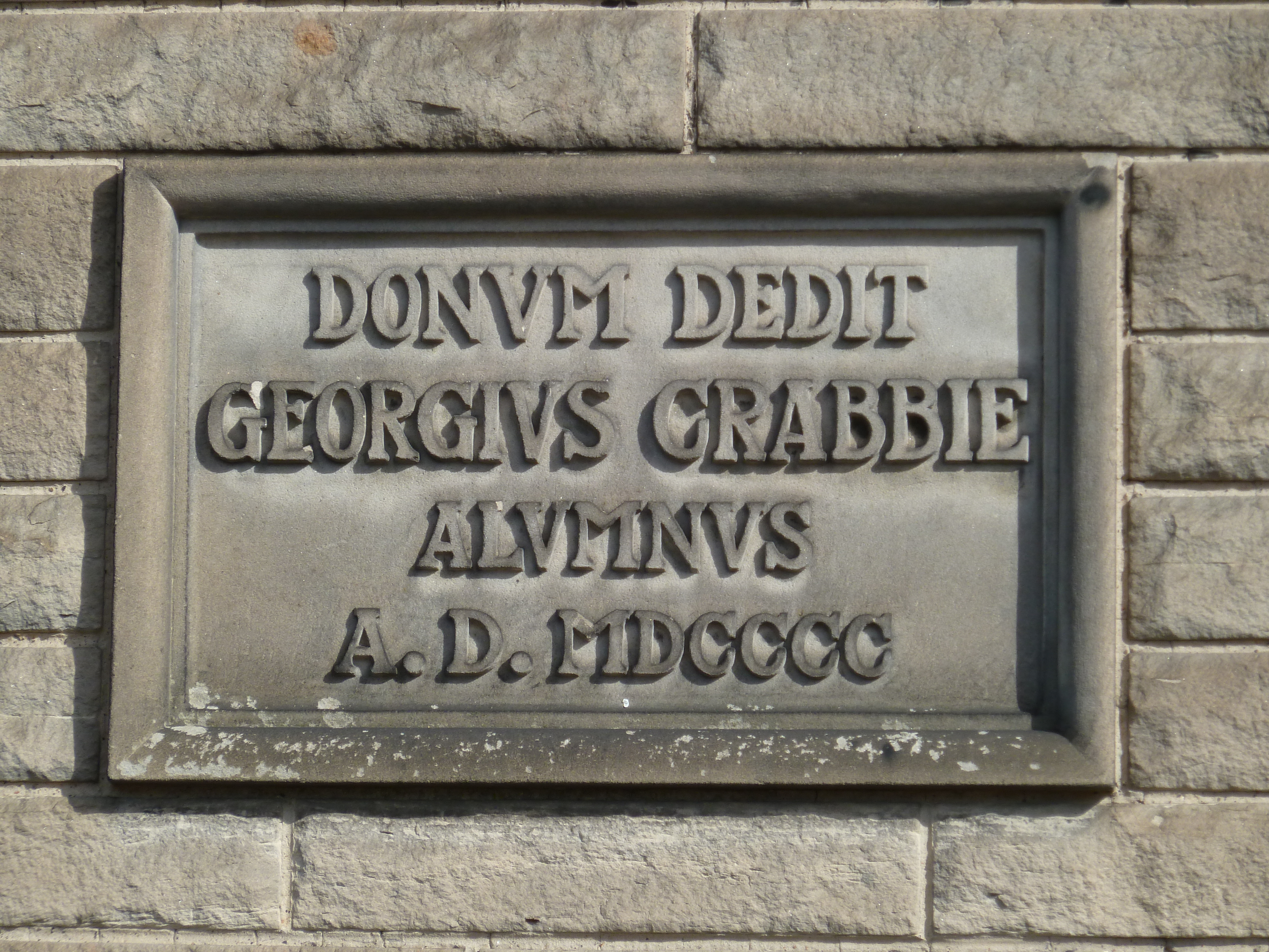 Stone relief plaque to George Crabbie on a building on the East side of the quadrangle at Edinburgh Academy, Henderson Row, Edinburgh, Scotland. Inscription: DONUM DEDIT GEORGIUS CRABBIE ALUMNUS A.D.MDCCCC The building currently contains the Stevenson Room, the Crabbie Room, the Stuart Room and the Library.